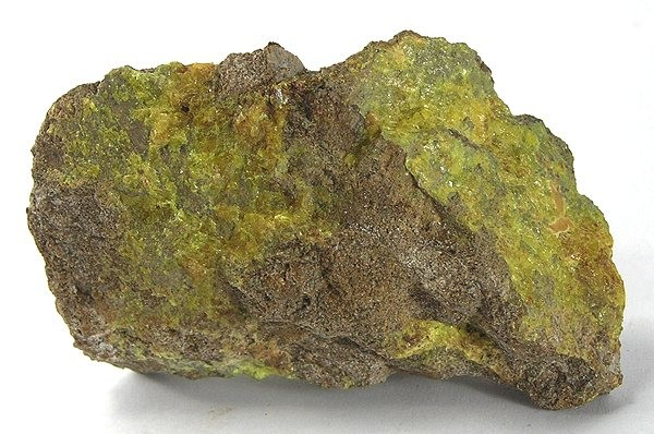 Idrialite Locality: Skaggs Springs Mine, Skaggs Springs, Sonoma County, California, USA (Locality at ) Size: 6.3 x 4.1 x 1.8 cm. Idrialite (named for the Idria Mine in Slovenia, the type locality) is a VERY RARE mineral of organic origin (hydrocarbon). The species is also known as curtisite, which was described from the Skaggs Springs Mine. It has been found in very few localities worldwide. Specimens rarely appear on the market. This is about as good as they get - the mineral does not form eye-visible crystals. Ex. Carlton Davis Collection.